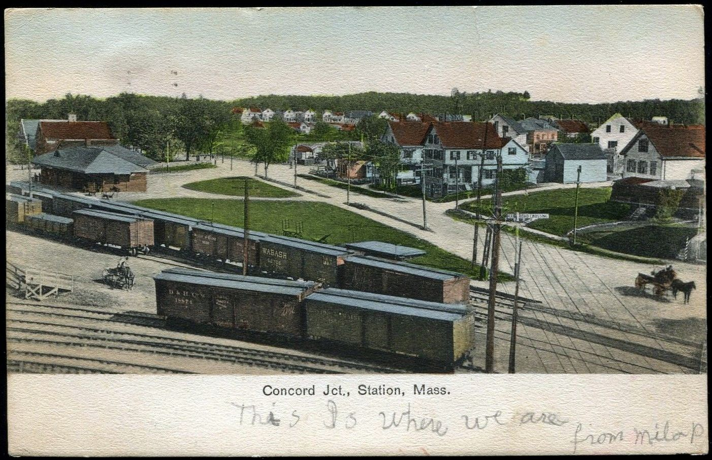 Early divided back postcard of Concord Junction station